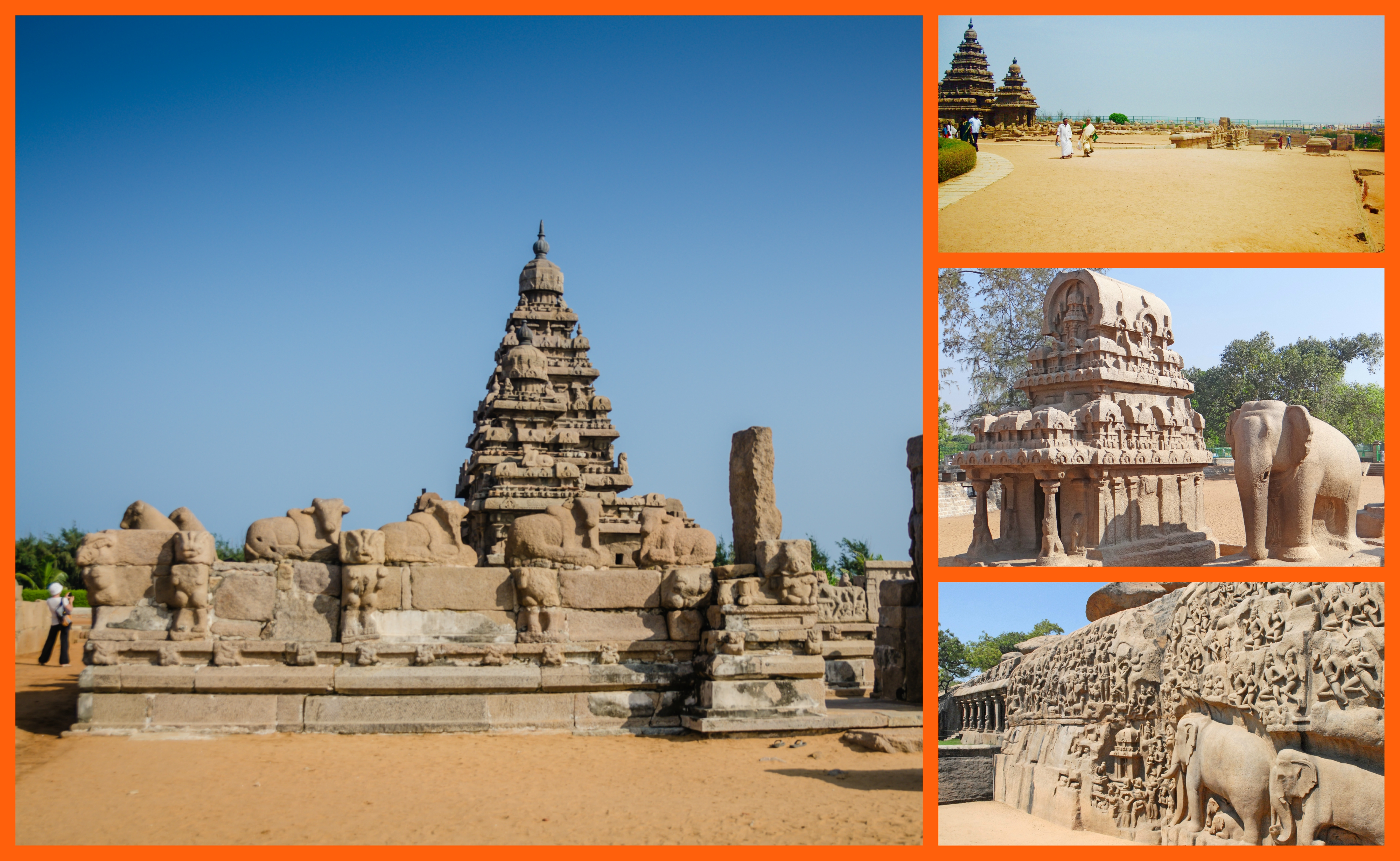 Derivative work on the following four wikimedia commons files: Shore Temple (16217100293).jpg L'Ascèse d'Arjuna (Mahabalipuram, Inde) (13957935741).jpg Les temples monolithes (Mahabalipuram, Inde) (13923883405).jpg Shore Temple, Mahabalipuram sea side view.JPG